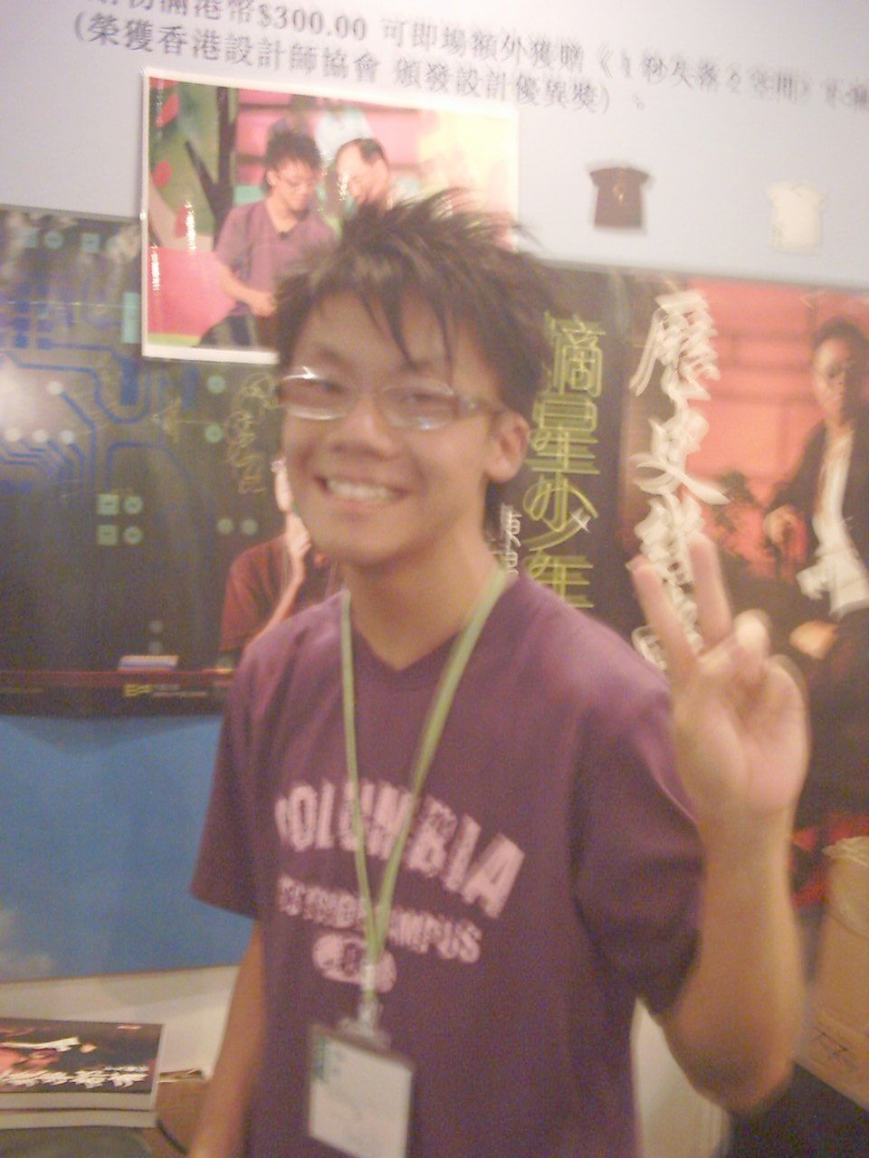 Photo taken at evening of 21st July, 2006 by User:Mungs.